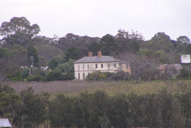 Raby, Catherine Field